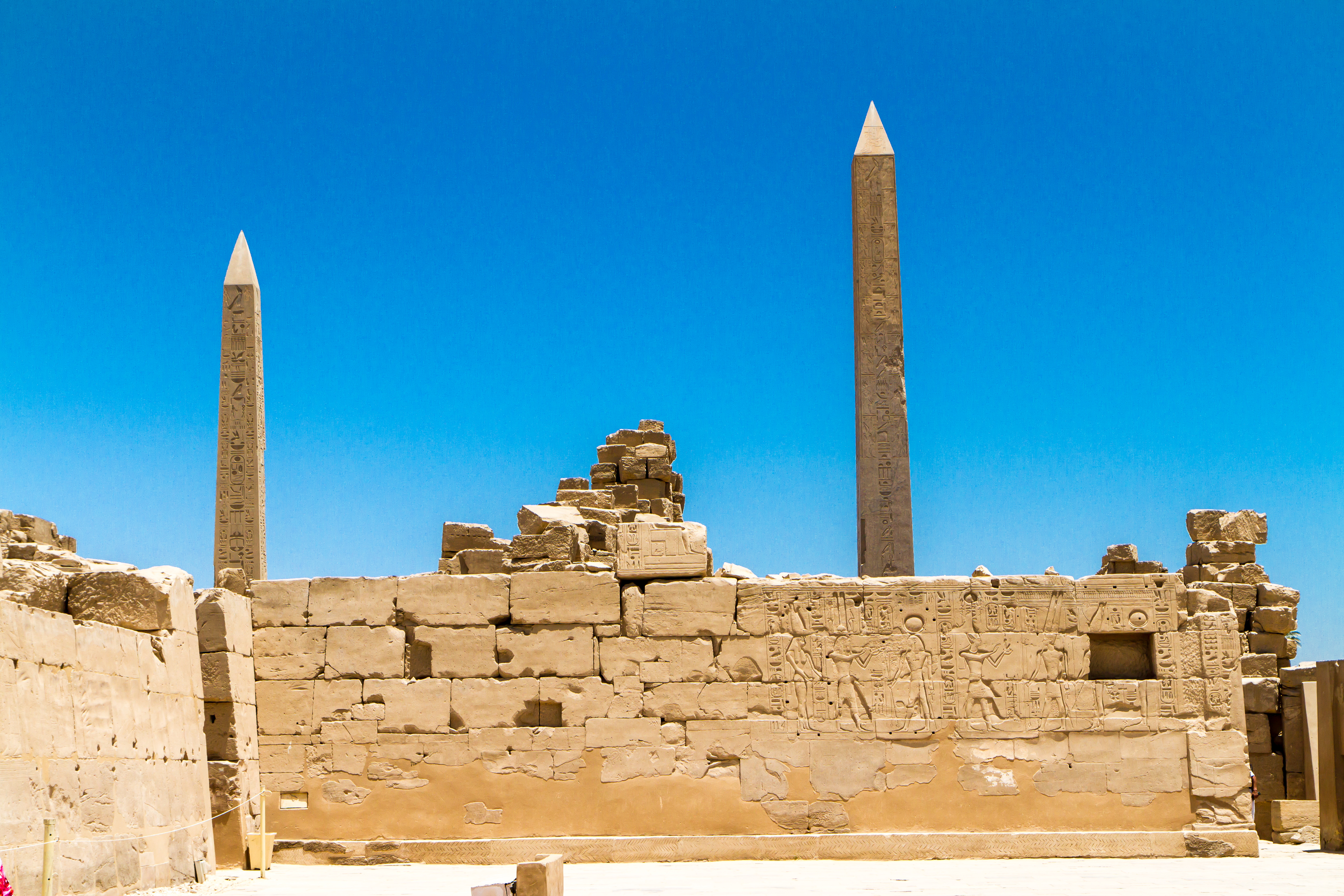 Luxor, Luxor City, Luxor, Luxor Governorate, Egypt